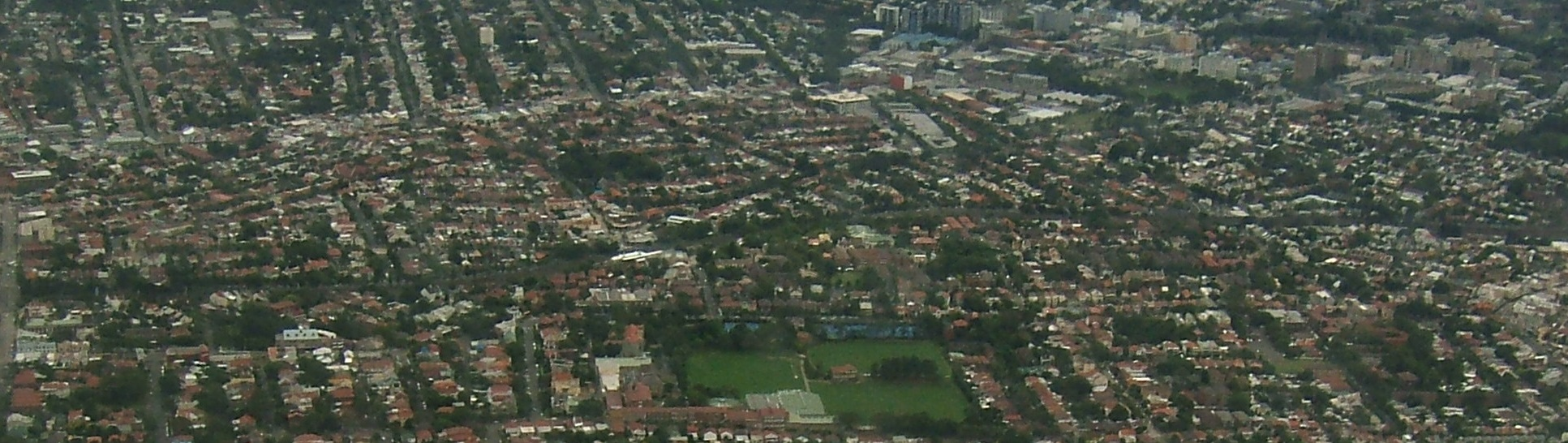 Aerial view of the said location in Sydney